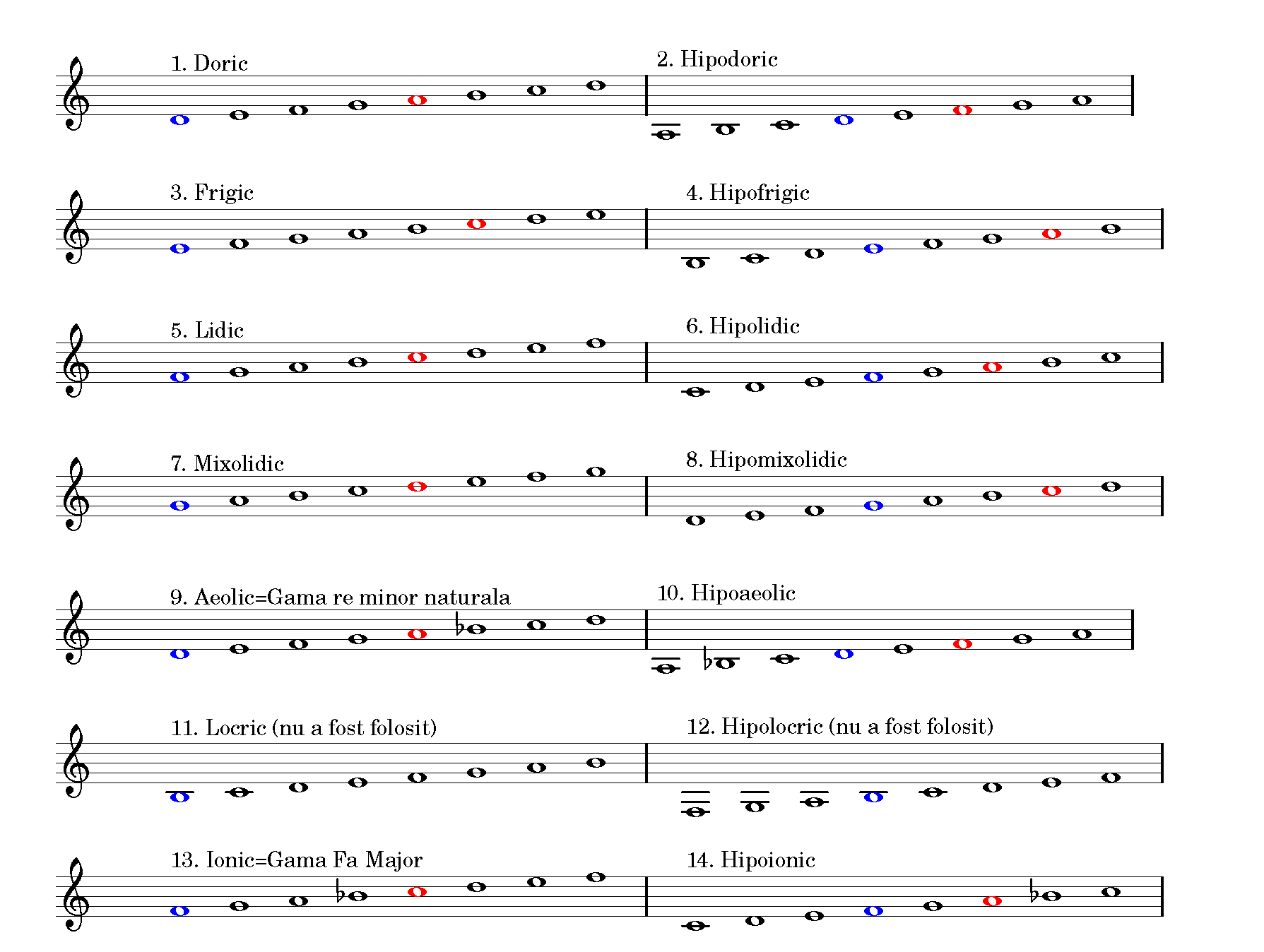 Gregorian Chant Modes1